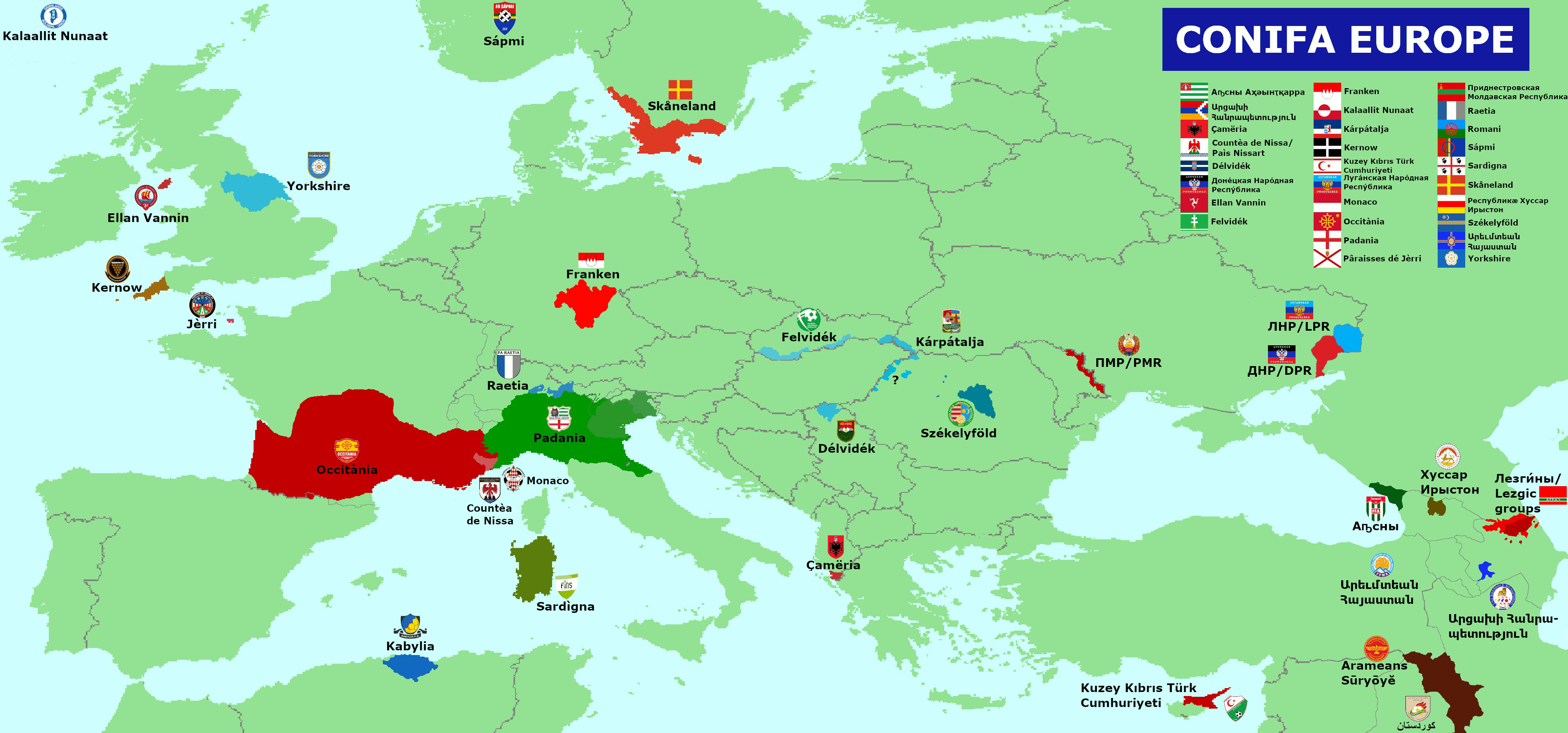 Map shows geographic locations of CONIFA Europe members and territorial pools from which players must possess at least some heritage in order to qualify to play for their teams